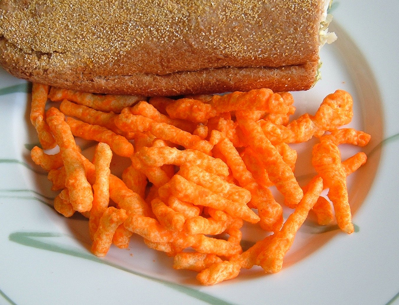 Cheetos on a plate with a sandwich